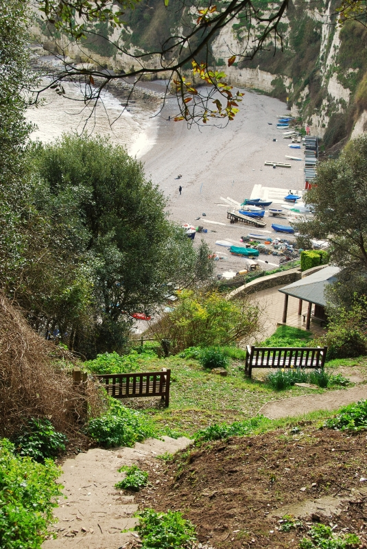 Beer: The coast path climbing from Beer